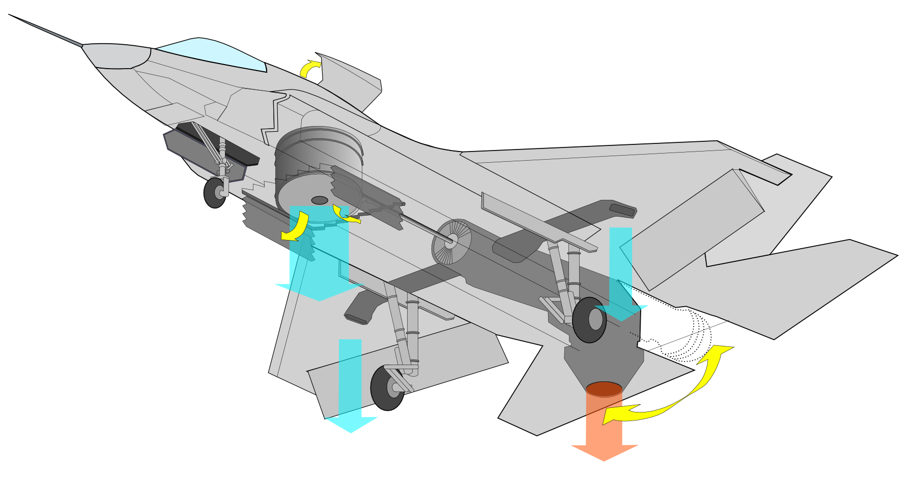 F-35B Joint Strike Fighter's thrust vectoring nozzle and lift fan